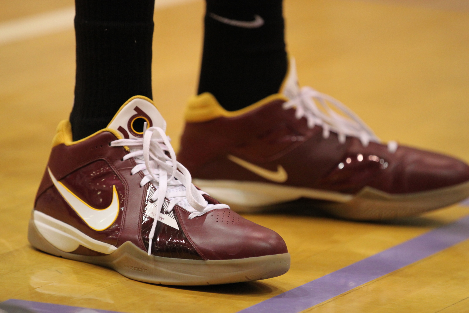 Durant Redskins colored kicks